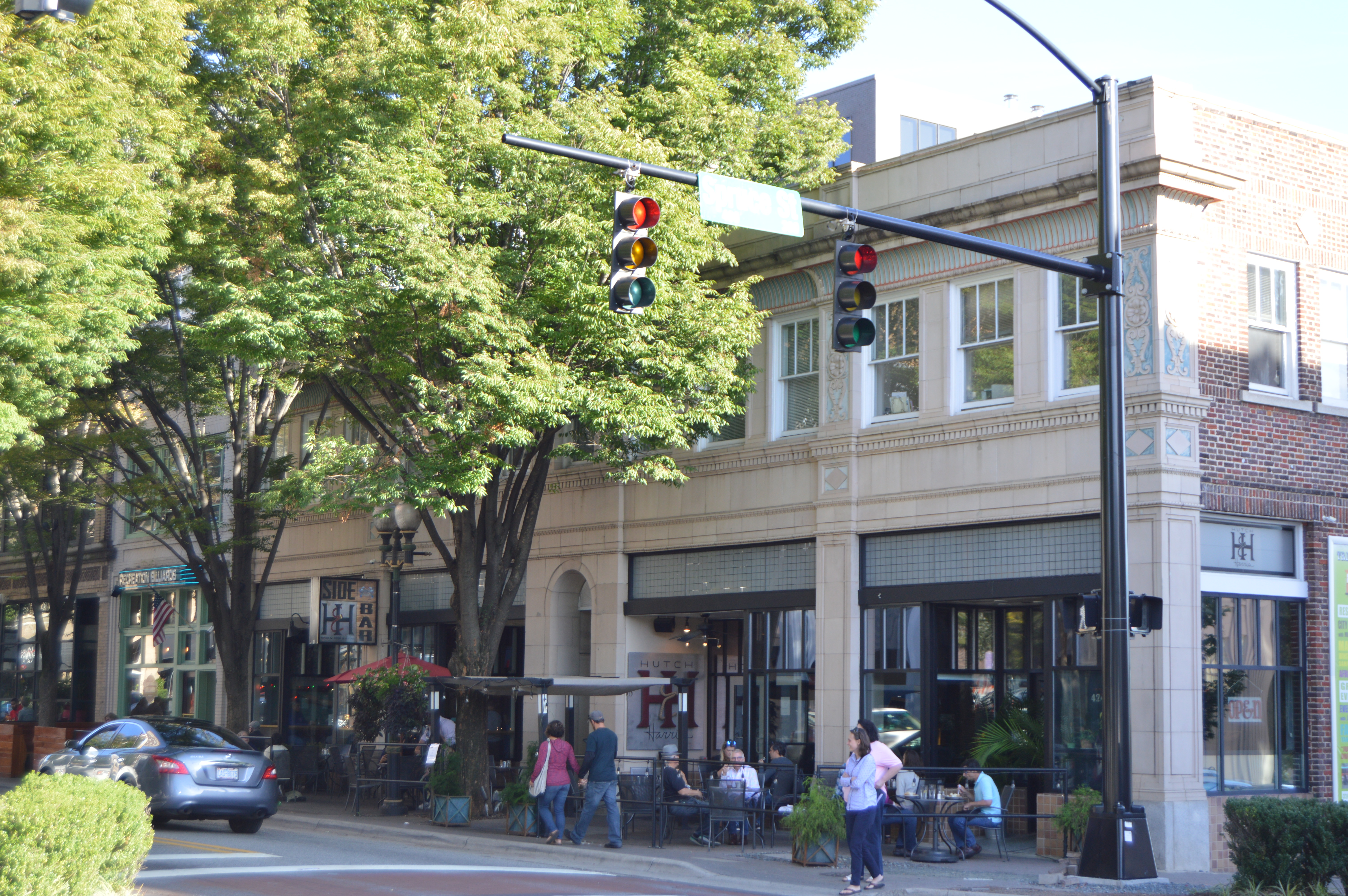 Front of the Gilmer Building, located at 416-424 W. Fourth Street in Winston-Salem, North Carolina, United States. Built in 1924, it is listed on the National Register of Historic Places.